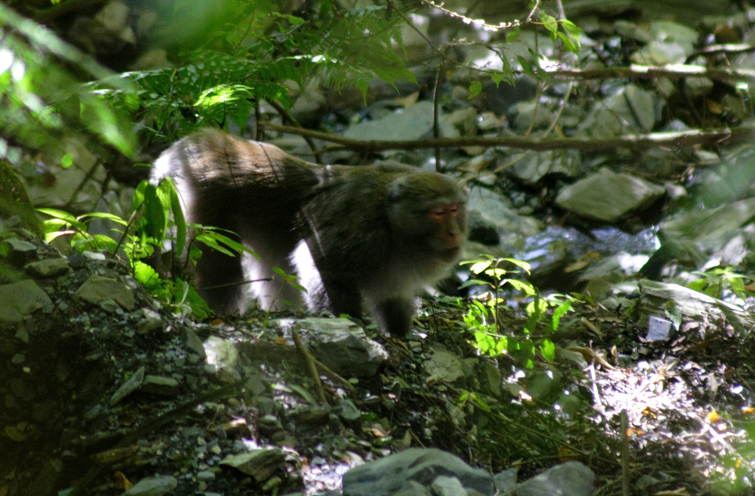 On our final day of the Yushan hike, the surroundings became increasingly tropical as we descended. Having seen relatively little wildlife (a couple of deer in Batongguan, some elusive pheasants and a monkey further up the valley) we suddenly came across a family of rock monkeys just a little way from the Yinu waterfall. This guy was presumably the boss of the pack, being somewhat larger than all the others and walked around this dry stream bed peering at us whilst the other members of the group spread out to get a better look from relative safety. I wasn't very well equipped... shy animals, dim, contrasty light, only a 300mm non-IS lens and a tripod... not to mention no experience in shooting this sort of subject. I only got a few reasonable shots which are a bit blurry and indistinct.